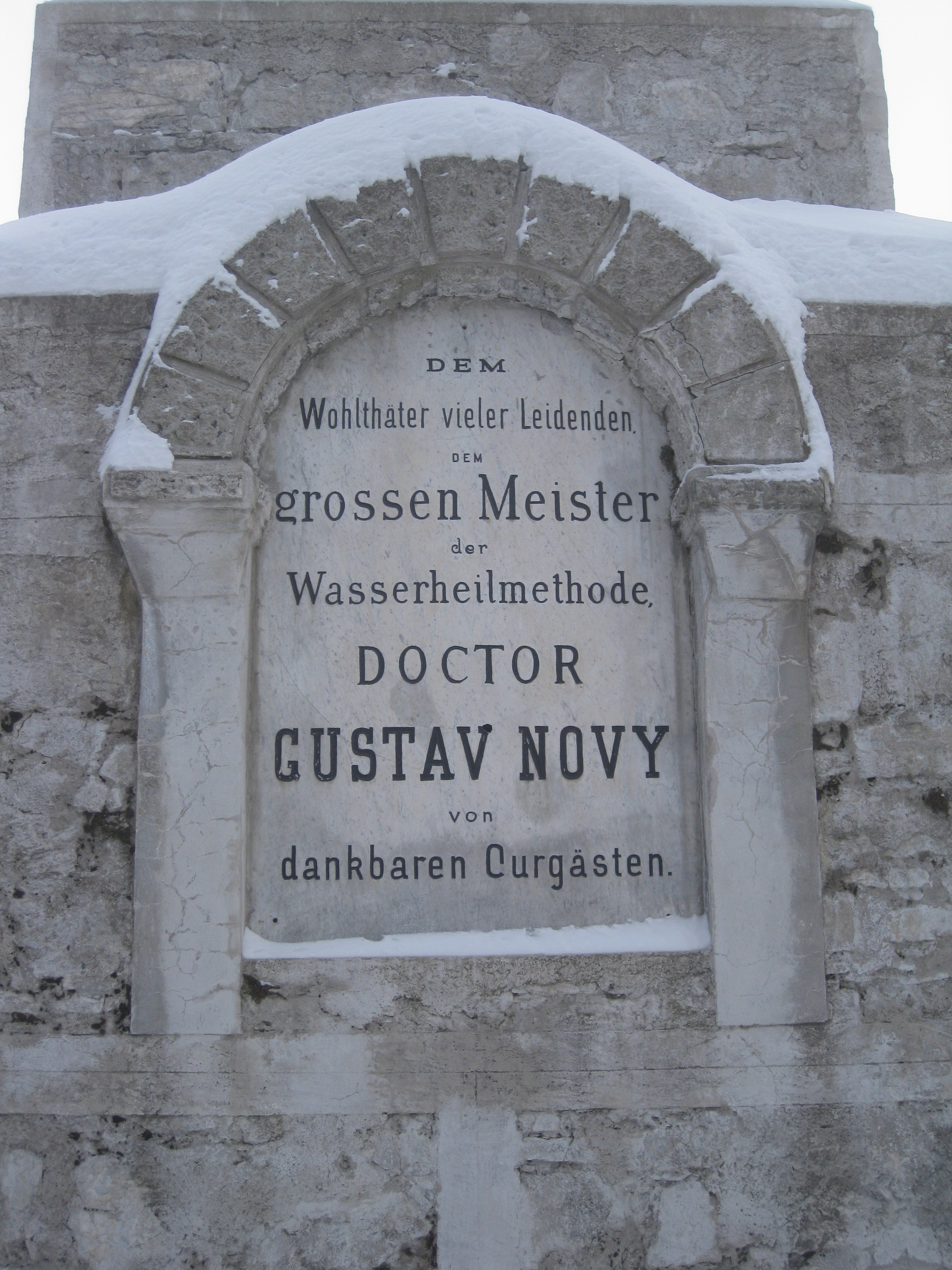 Tablet bearing the dedication of the "Novystein" on the base of the monument.